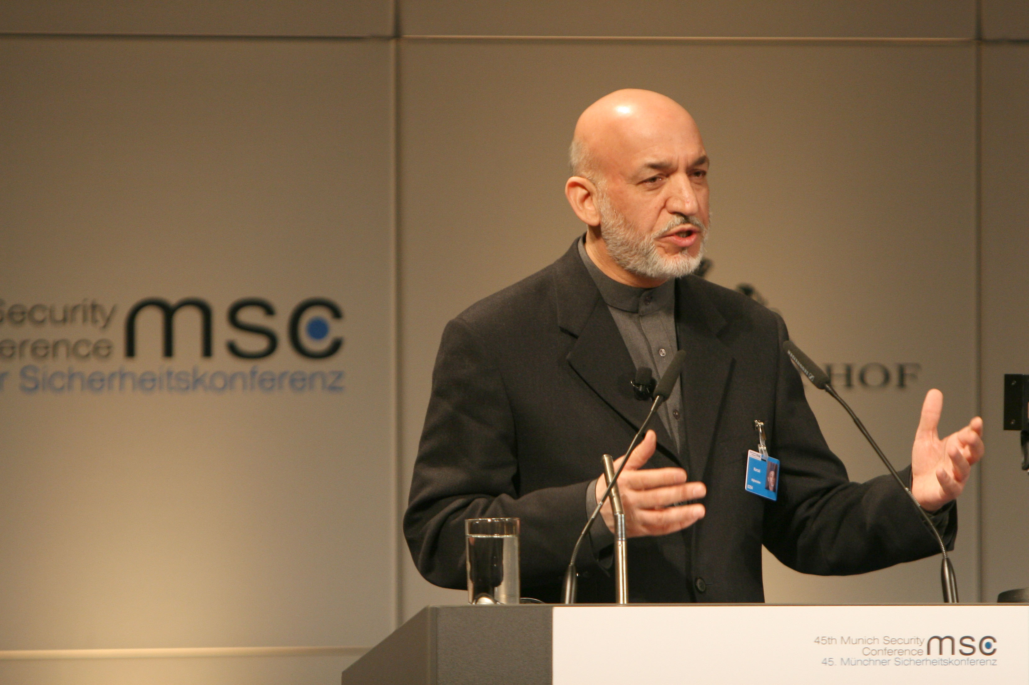 45th Munich Security Conference 2009: Hamid Karzai, President of the Islamic Repubic of Afghanistan, during his speech on Sunday morning.